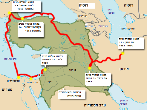 Translation to Hebrew of Image:Map_iran_ottoman_empire_banishment.png